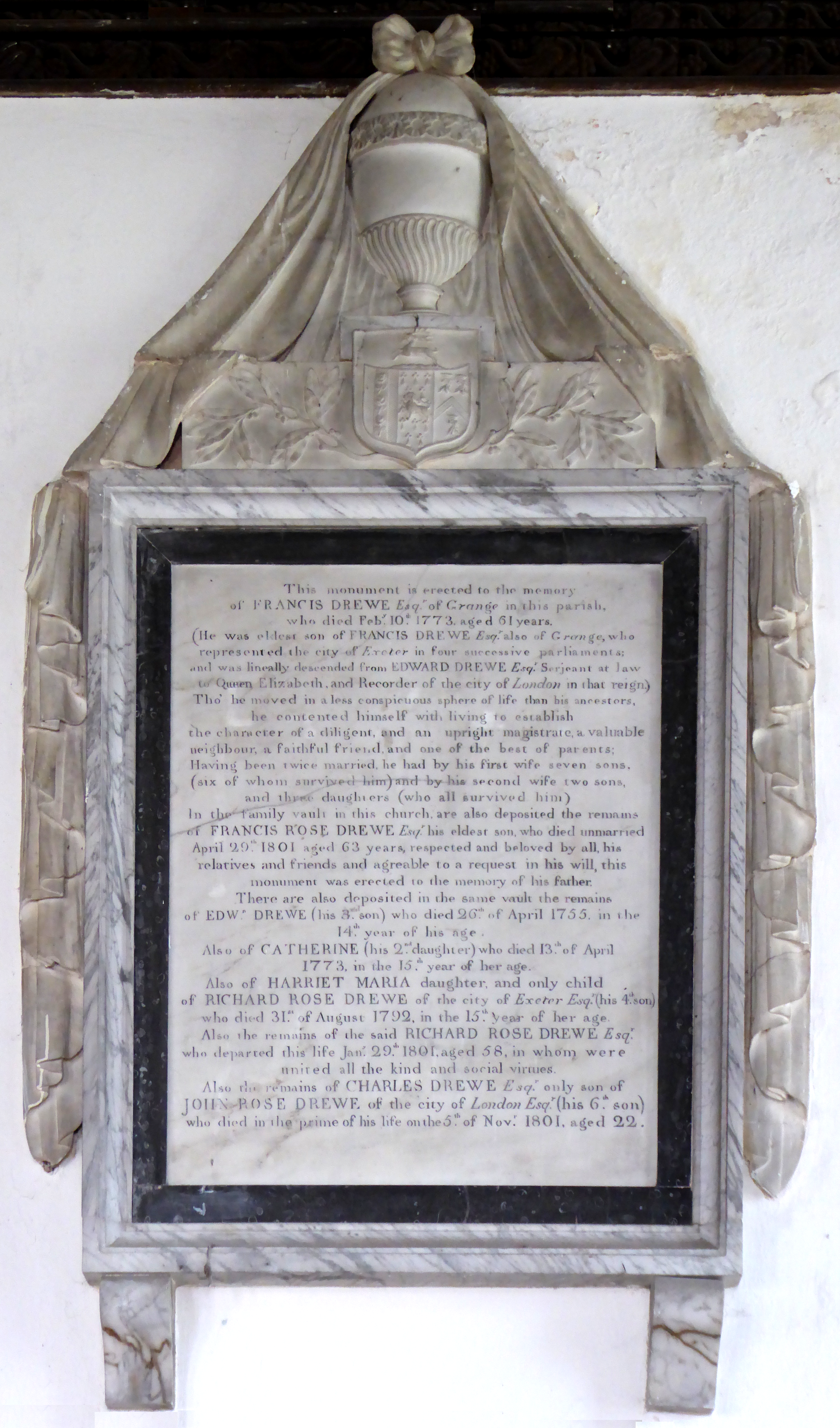 Mural monument in Broadhembury Church, Devon, of Francis Drewe (1712–1773) of The Grange in the parish of Broadhembury, Sheriff of Devon in 1738. He married twice: Firstly in 1737 to Mary Rose (died pre-1753), only child and sole heiress of Thomas Rose of Wooton FitzPaine in Dorset (whose mural monument survives in Broadhembury Church), by whom he had 7 sons, four of whom inherited Grange successively. Secondly in 1753 to Mary Johnson, daughter of Thomas Johnson of London. The arms above show a triple impalement: centre: (Ermine, a lion passant gules) Drew; dexter: (Sable, on a pale or three roses gules slipt and leaved proper) Rose; (Roberts, George, History and Antiquities of the Borough of Lyme Regis and Charmouth, p.299[1]) sinister: (Argent, a chevron between three lion's heads erased gules crowned or) Johnson. Inscribed as follows: "This monument is erected to the memory of Francis Drewe Esqr of Grange in this parish who died Feby 10th 1773 aged 61 years. (he was eldest son of Francis Drewe Esqr also of Grange, who represented the City of Exeter in four successive parliaments and was lineally descended from Edward Drewe Esqr serjeant at law to Queen Elizabeth and Recorder of the City of London in that reign). Tho' he moved in a less conspicuous sphere of life than his ancestors, he contented himself with living to establish the character of a diligent and upright magistrate, a valuable neighbour, a faithful friend and one of the best parents. Having been twice married he had by his first wife seven sons (six of whom survived him) and by his second wife two sons and three daughters (who all survived him)..." There follows much biographical detail regarding his progeny.